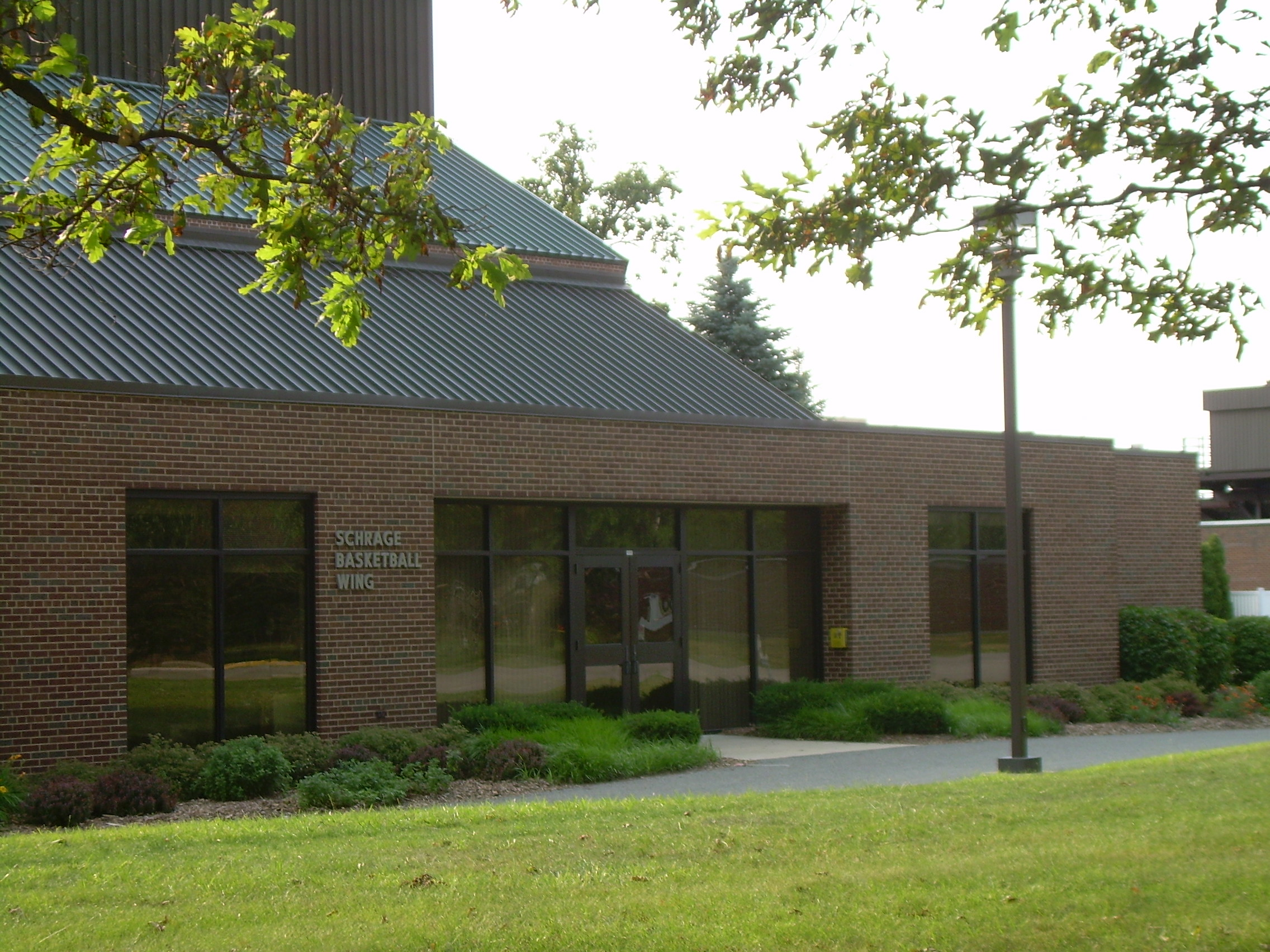 The Schrage Basketball wing, an addition to the Athletics and Recreation Center, houses the men's and women's basketball coaching offices for Valparaiso University.